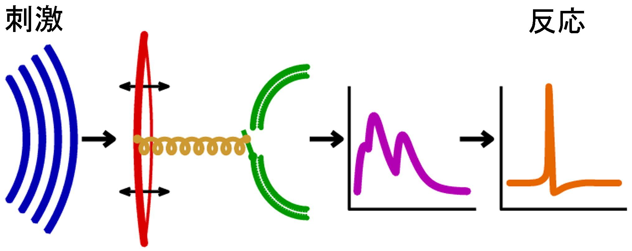 A schematic representation of auditory signaling in japanese.